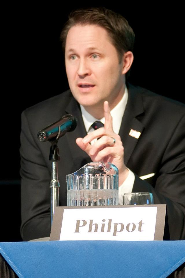 Morgan Philpot speaking to a group of voters in Utah.